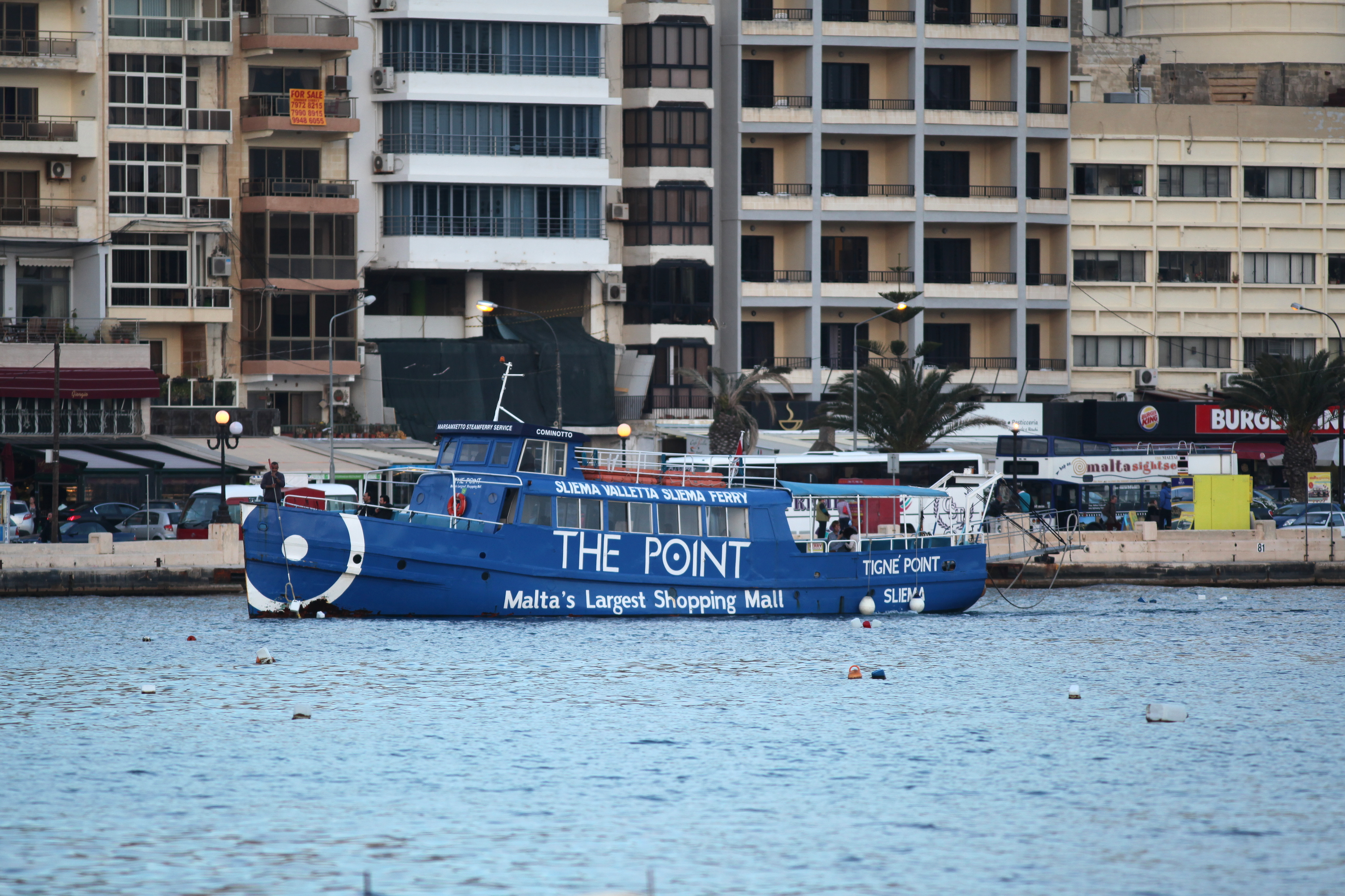 Views from Triq Ix-Xatt in Gżira to the Ferry Sliema - Valletta at Triq Ix-Xatt in Sliema, Malta